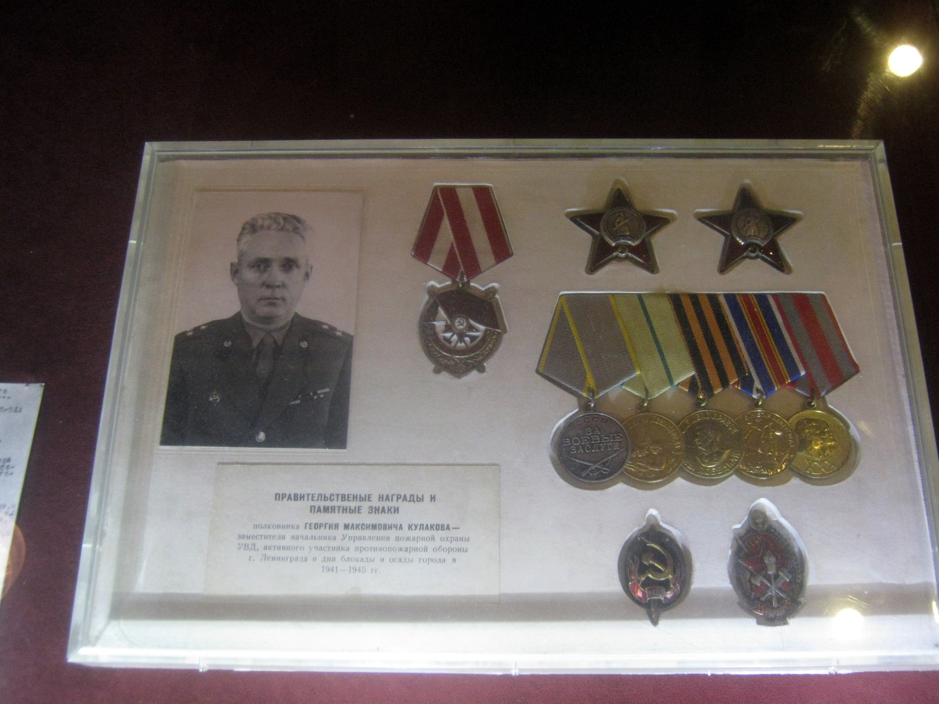 Col. Georgy Kulakov, Soviet firefighter during the Siege of Leningrad; photo of his decorations in the Leningrad Siege Museum; his military official photo about 1950s